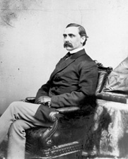 Hon. Adelbert Ames of Miss. (from unverified information on negative sleeve) Annotation from negative, scratched into emulsion: Sen. Ames. General in U.S. Army; Gov. Mississippi 187 - 1874; Born in Rockland, Me 1835; West Point 1861, Orig Gen. Vols. 1863, honored for service at Bull Run, Malverne Hill, Gettysburg, Fort Fisher; Made Maj. Gen. Of Vol, Resigned in 1870; awarded Medal of Honor, Apointed Provisional Gov. of Miss. 1868; U. S. Senator 4 yrs and requested to become Gov. of Miss. ; Made Gen of Vol. In Spanish Am. War.